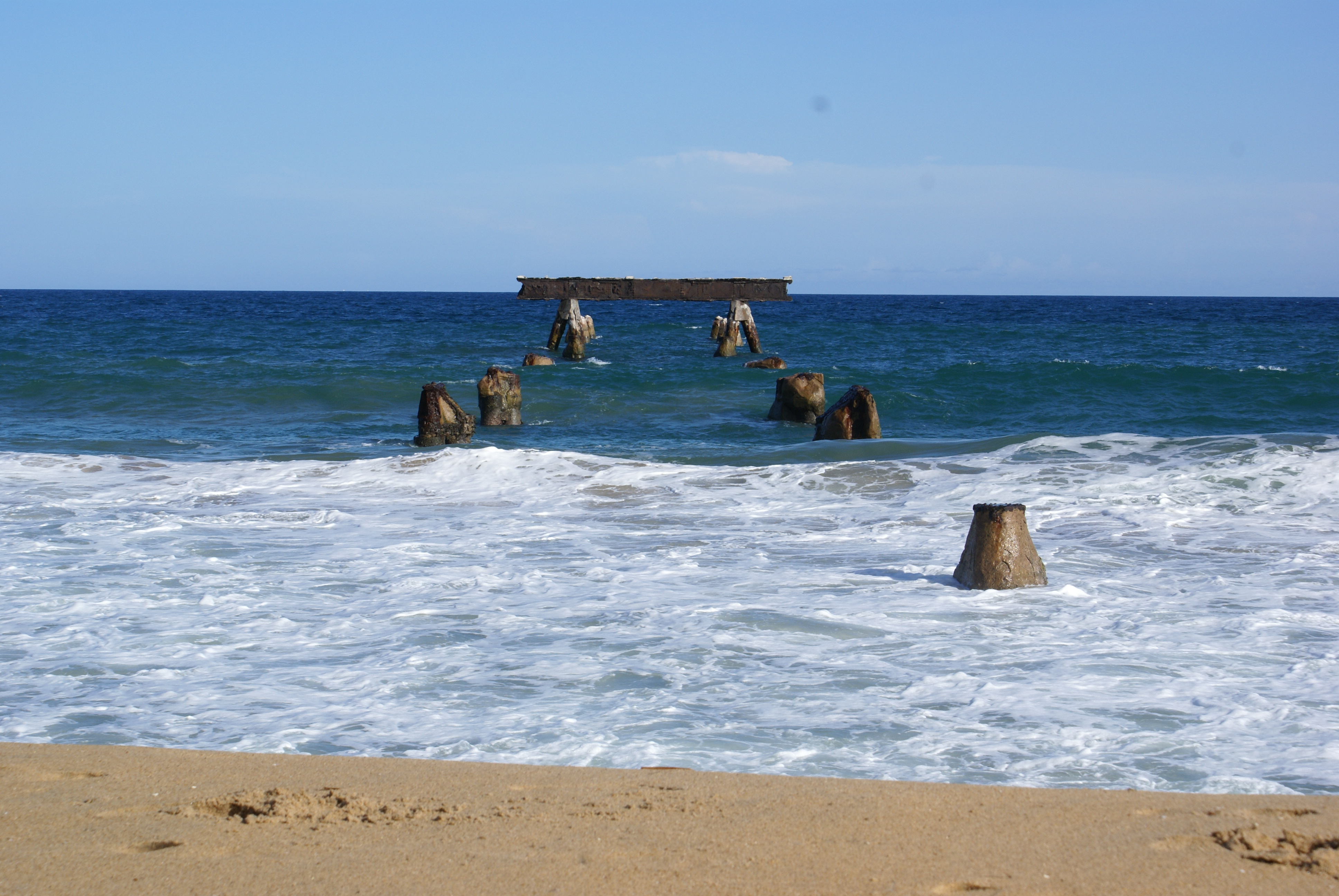 Original Jetty, Lome (Togo). Built by the Germans. Reaching out to the Altantic.